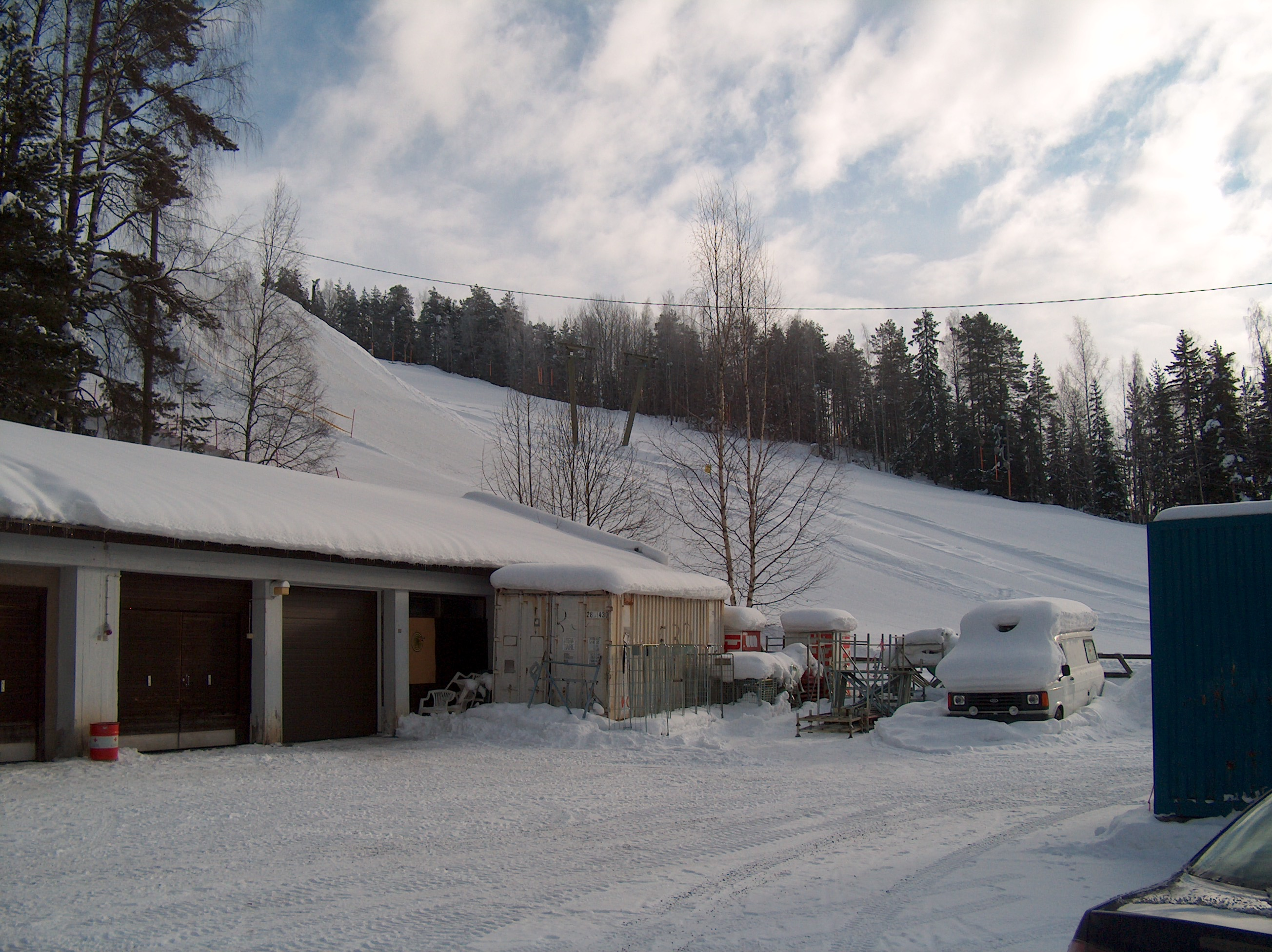 From the Logistics Centre of the Finnish Red Cross in Kalkku, Tampere, Finland.